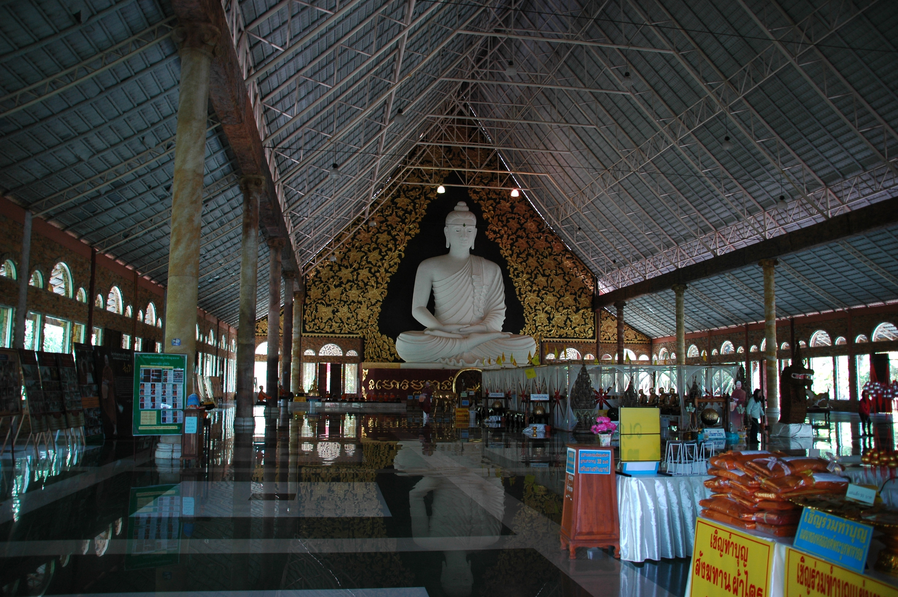 Inside the big Sala of Wat Pa Hay Lad in Santom, Phu Ruea, Loei Province, Thailand.